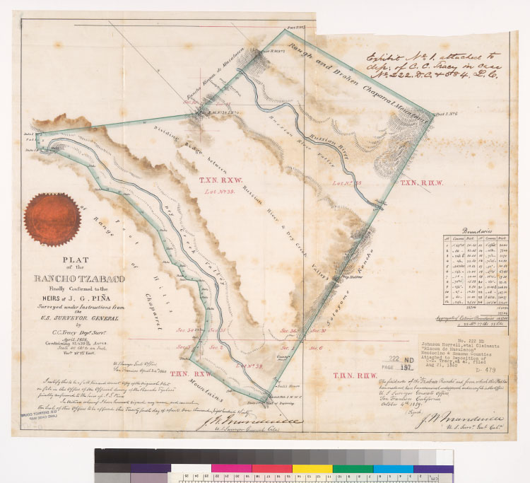 Includes notes and chart of boundaries.On label: [Rancho] Rincon de Musulacon, Mendocino & Sonoma Counties. Attached to Deposition of C.C. Tracy, et al., filed Aug. 21, 1860.From: U.S. District Court. California, Northern District. Land case 222 ND, page 197; land case map D-479 (Bancroft Library). Johnson Horrell, et al., clmts.Pen-and-ink and watercolor on tracing cloth.Relief shown by hachures.4362 T93"Exhibit no. 1 attached to dep: of C.C. Tracy ..."